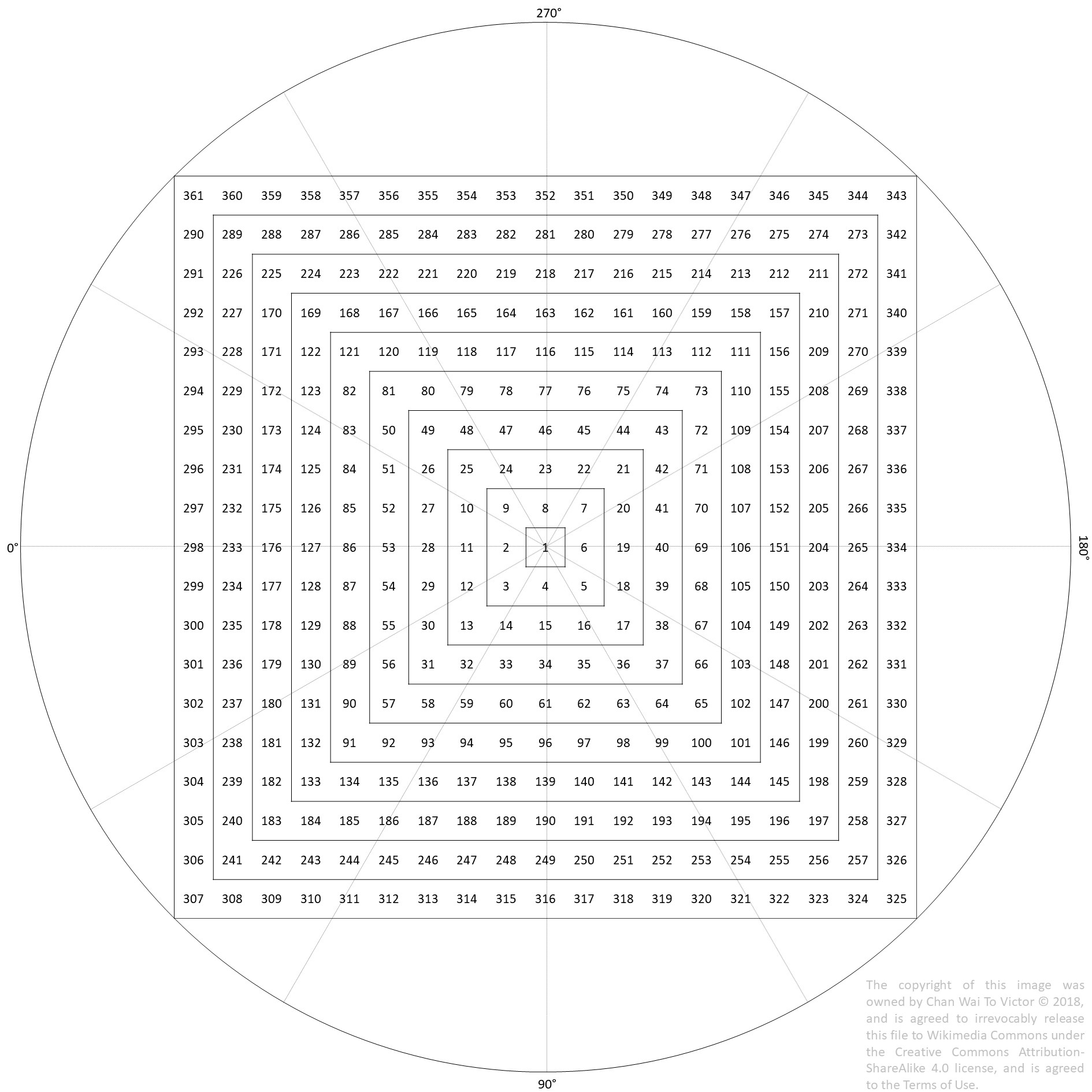 The Spiral Chart (or the Square of Nine) popularised by W. D. Gann. This particular version of the chart is created by Victor Chan Wai-to who has agreed to to irrevocably release this file to Wikimedia Commons under the Creative Commons Attribution-ShareAlike 4.0 license.